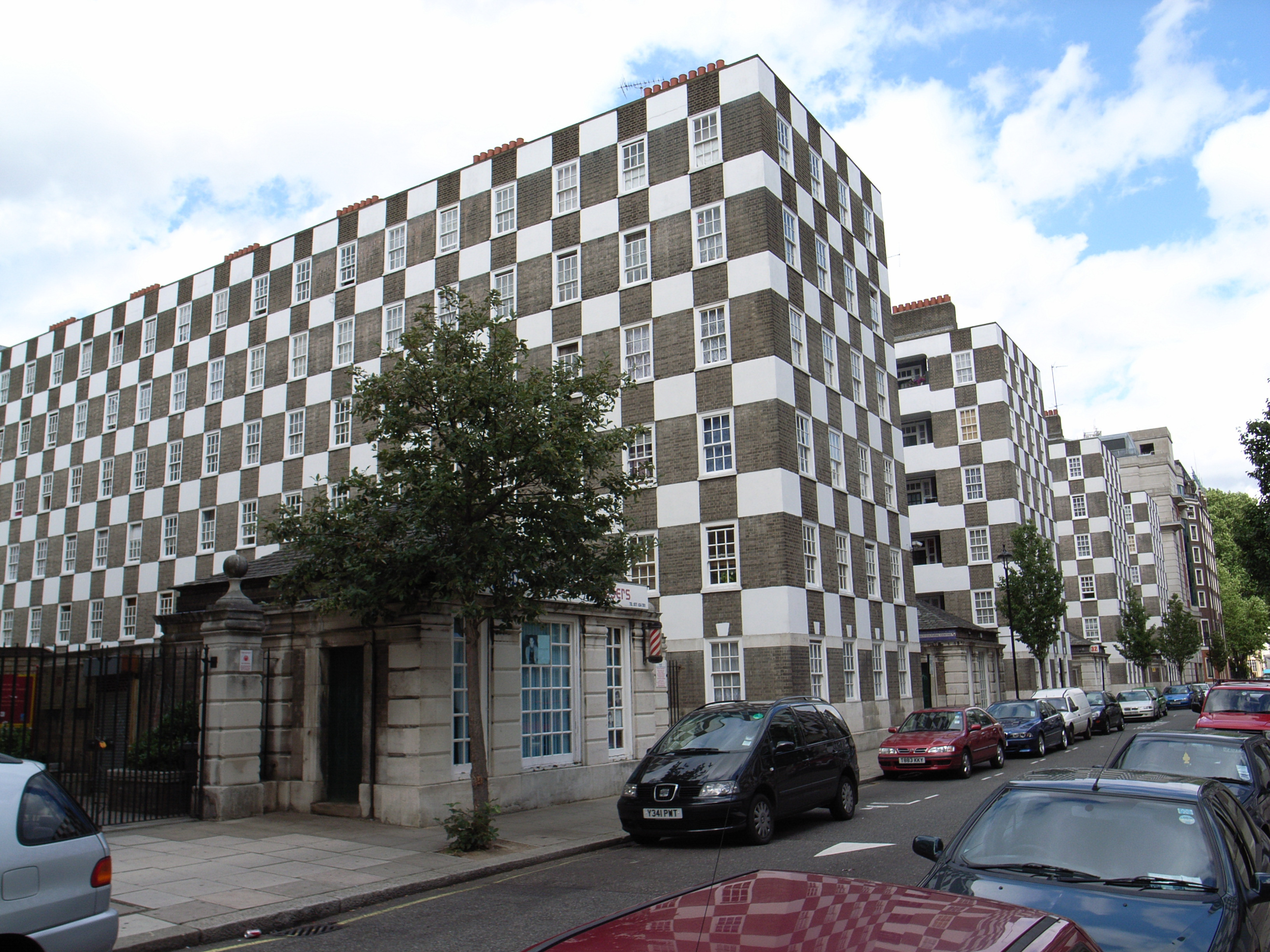 Page Street and Vincent Street Housing (1928-1930), by Edwin Lutyens